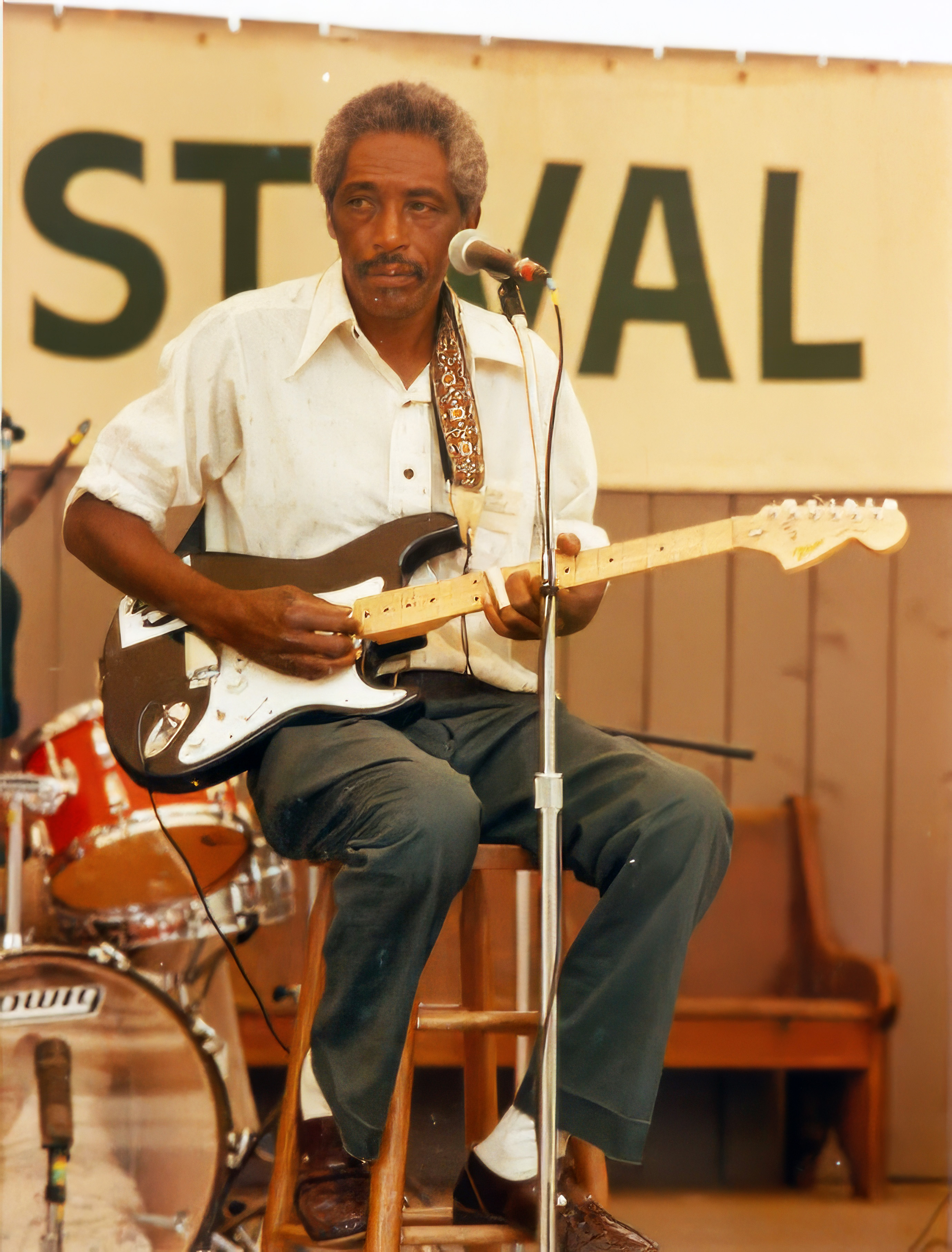 R. L. Burnside, Knoxville, Tenn, 1982